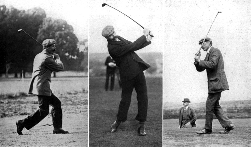 James Braid. The original caption: Open Champion of Great Britain in 1901, 1905, 1906, 1908 and 1910 as he appeared in the year 1901